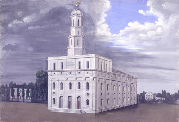 "The Nauvoo Temple" by C.C.A. Christensen